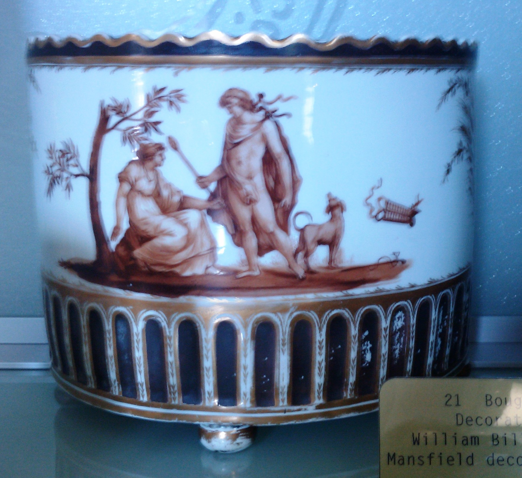 Decorated Porcelain by William Billingsley at his Mansfield works in c. 1799 - 1802. Now in Derby Museum